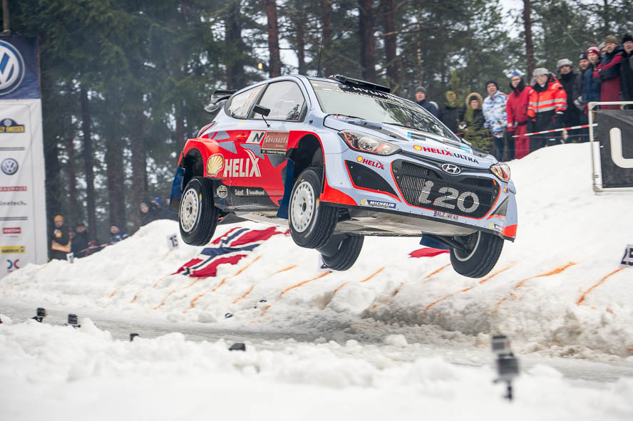 Rally Sweden 2014 Colin's Crest Arena,Hyundai Motorsport,Hyundai i20 WRC,Motorsport,Nicolas Gilsoul,Rally,Rally Sweden,Rallye,Rallye Schweden,SS19,Thierry Neuville,Vargäsen 1,WP19